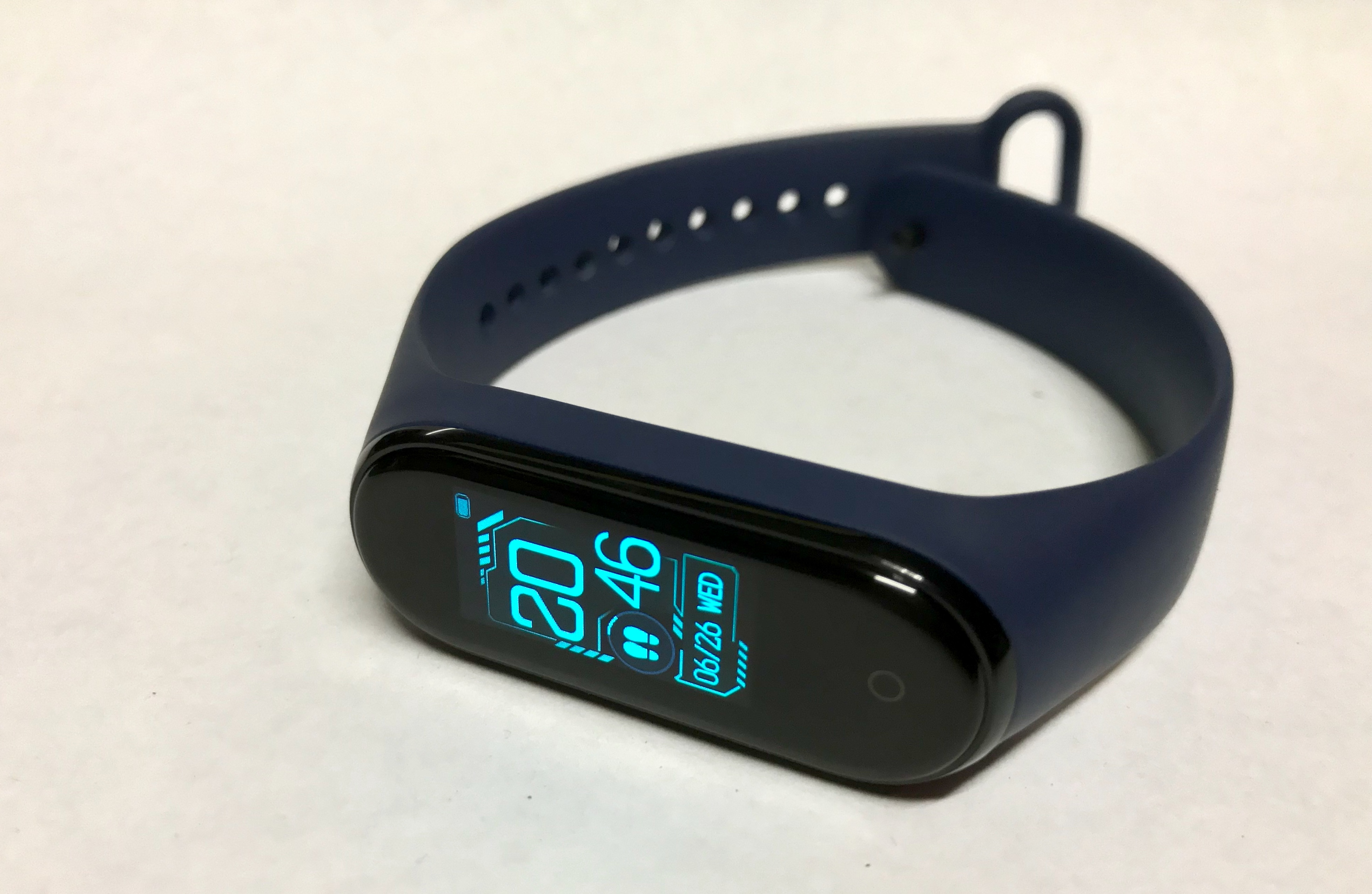 Xiaomi Mi Band 4